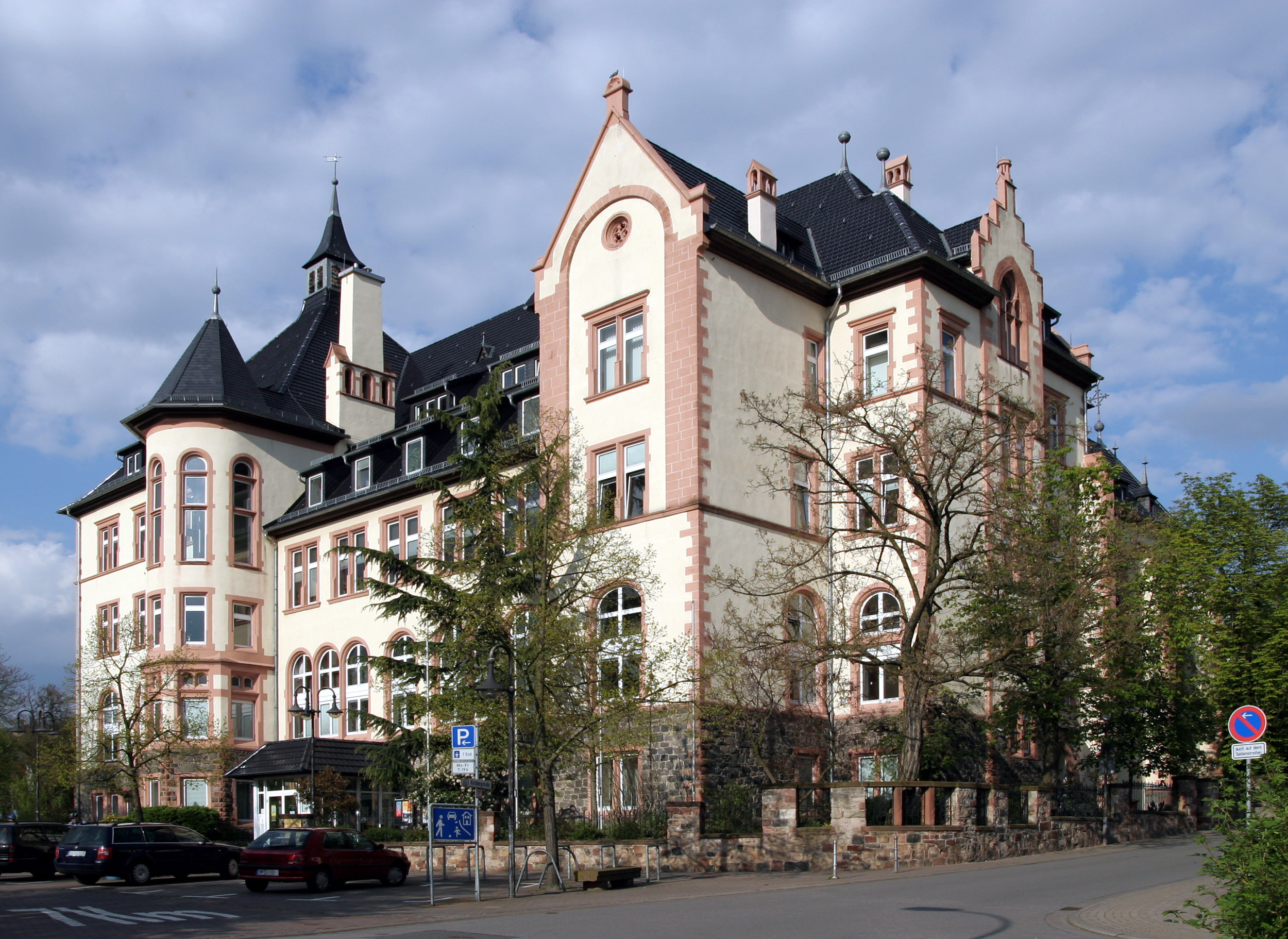 City hall of the city of Bensheim (Germany)